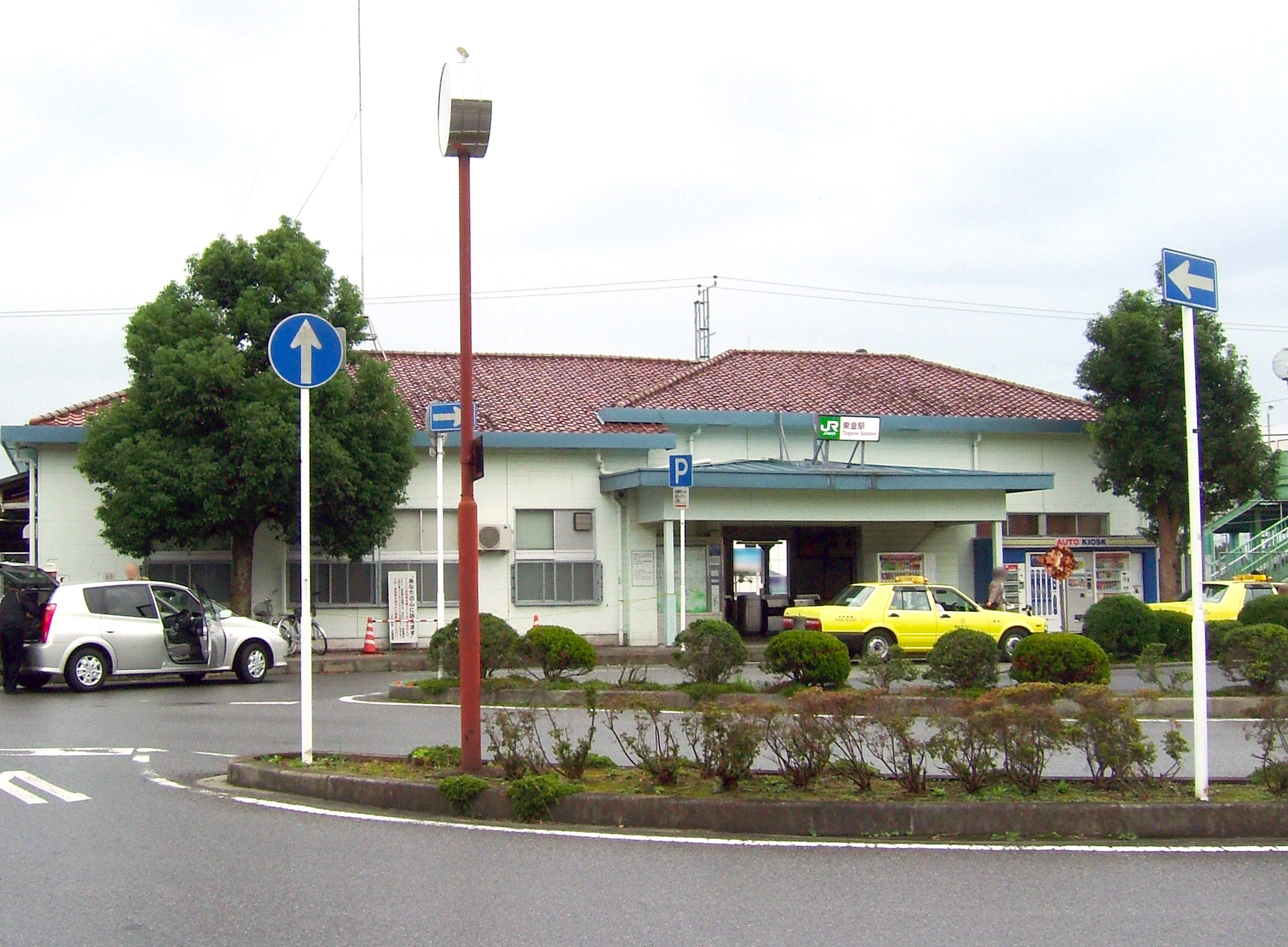 Tōgane Station building (East Japan Railway Tōgane Line)